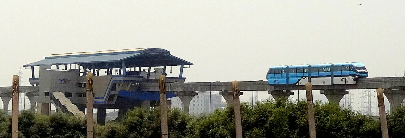 Monorail departure from station